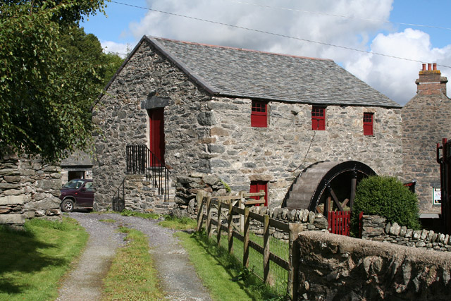 Ysbyty Ifan: watermill. Showing the restored high-breastshot waterwheel, but without its associated launder (aqueduct). Robert E Thomas was miller here in 1895. The Ysbyty Estate, which belongs to the National Trust, runs up near to the Conwy-Gwynedd border in square SH7643